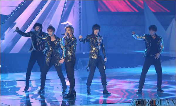 fifth special album Love Beat teaser photo